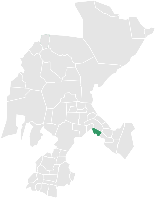 Map of the Municipality of Luis Moya in Zacatecas, México.